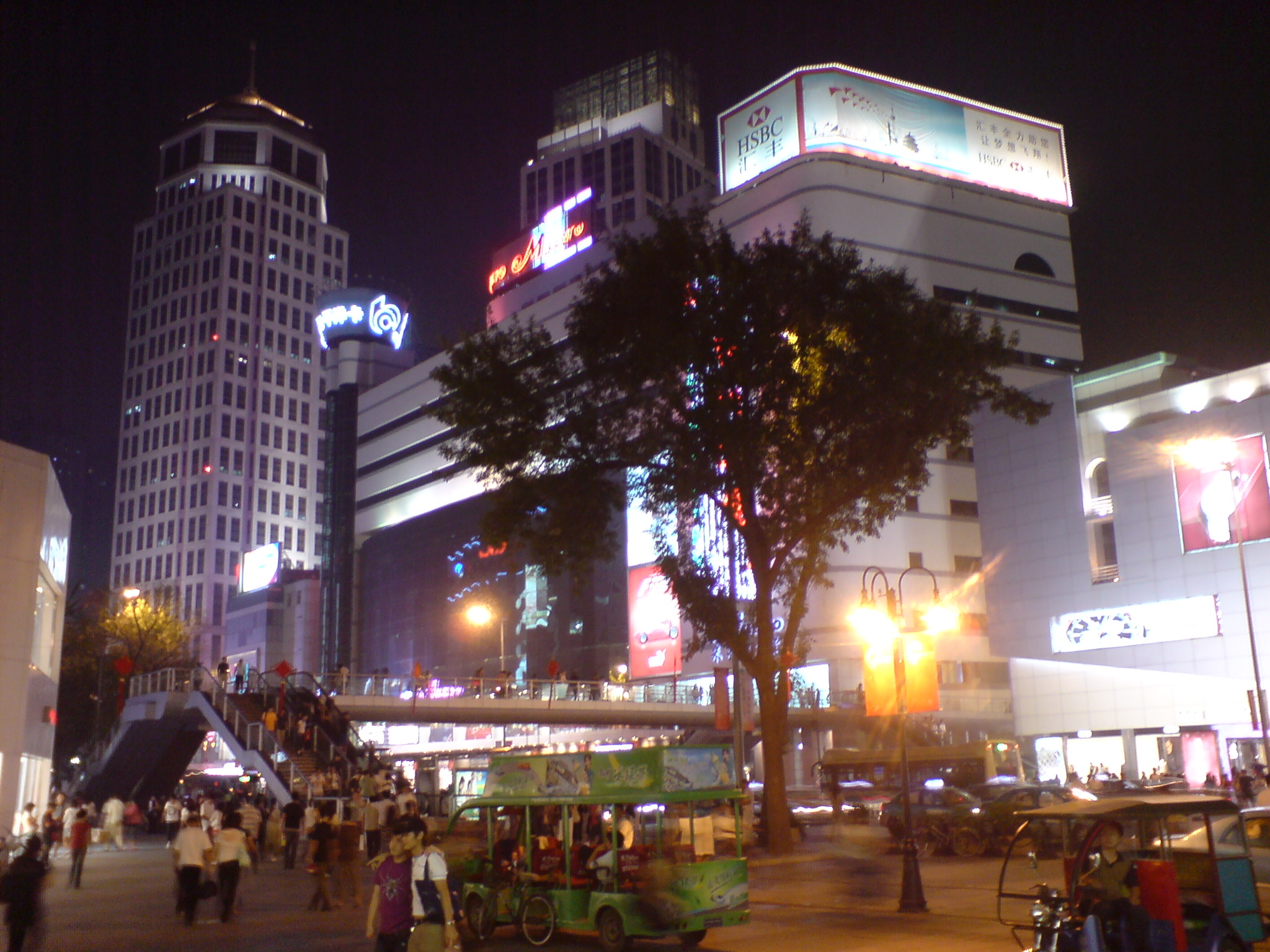 City center in Tianjin , China